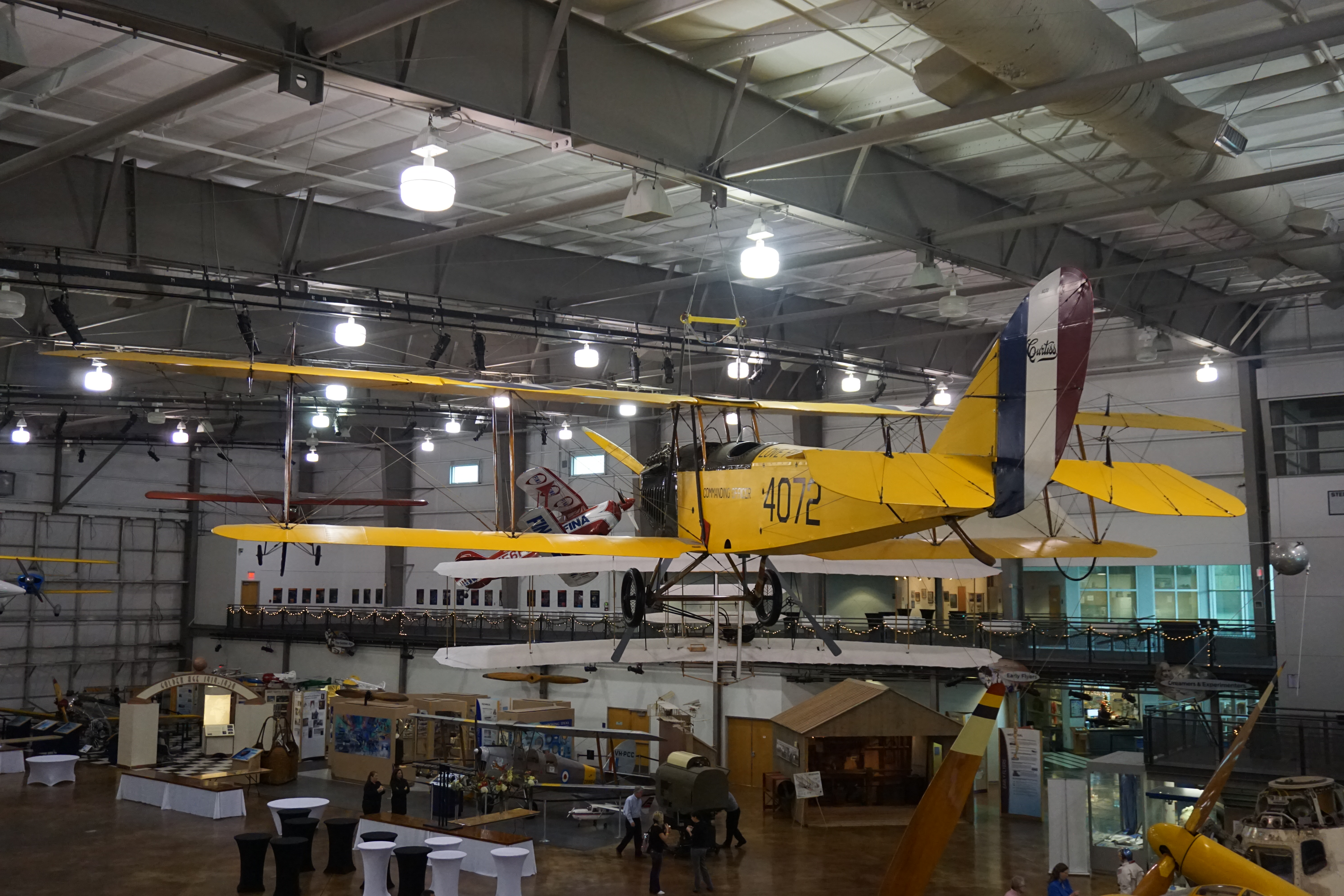 A Curtiss JN-4D "Jenny" on display at the Frontiers of Flight Museum at Dallas Love Field in Dallas, Texas (United States).